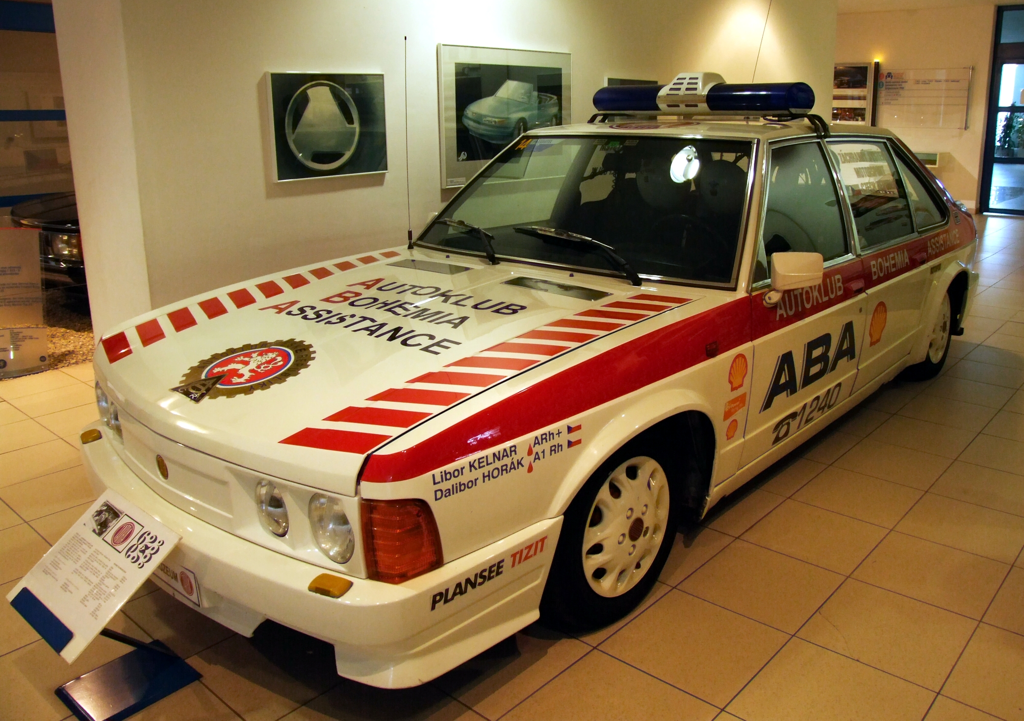 Tatra 623 in Kopřivnice